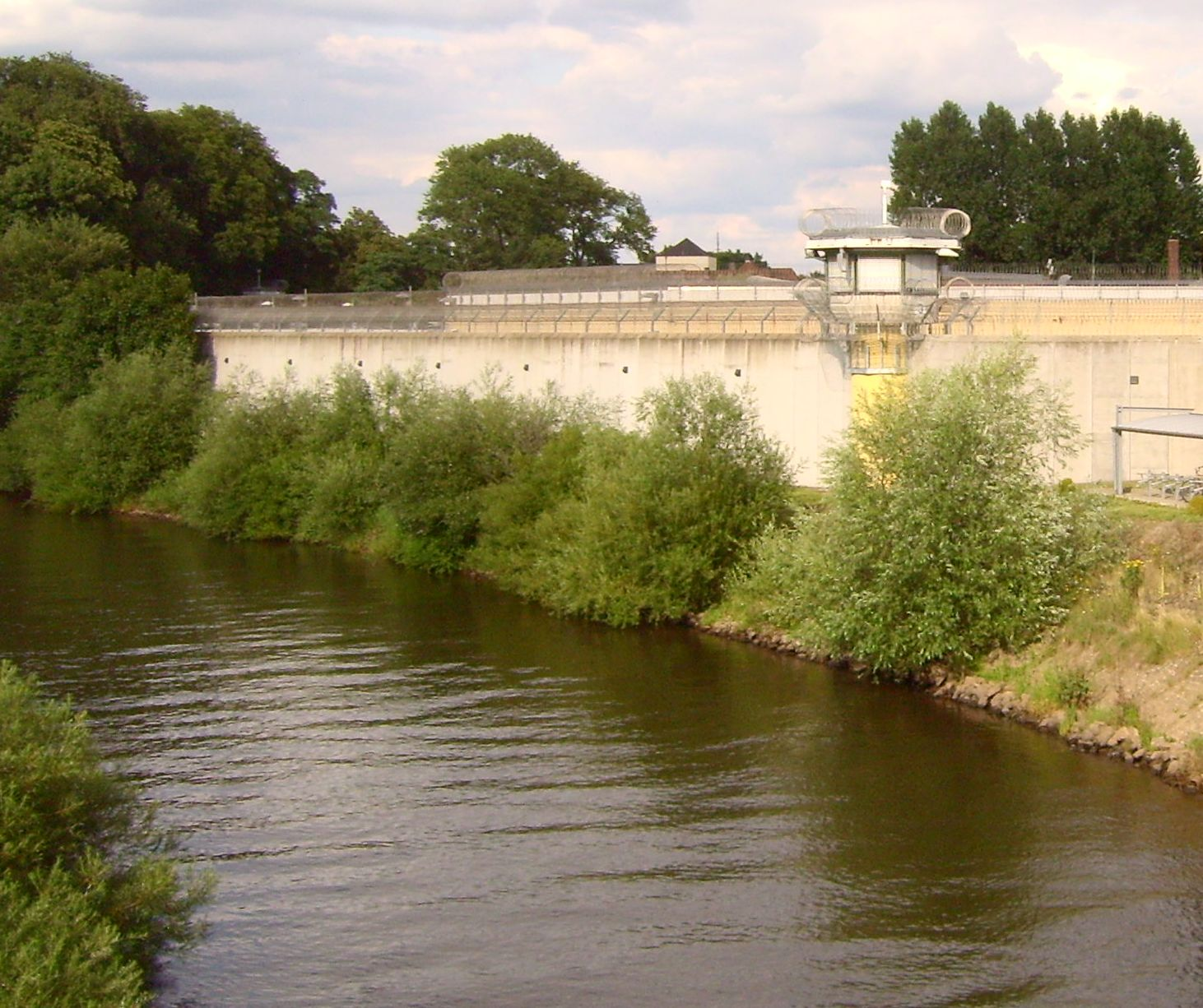 The JVA Celle is a correctional facility in Celle (Germany)-outer wall of the prison behind the river Aller.